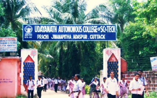 Entry gate of Udayanth Autonomous college,Adaspur